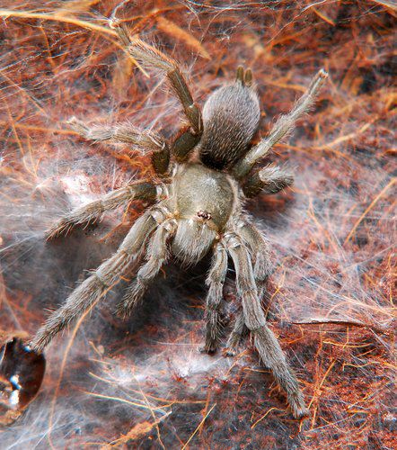 Philippine dwarf tarantula